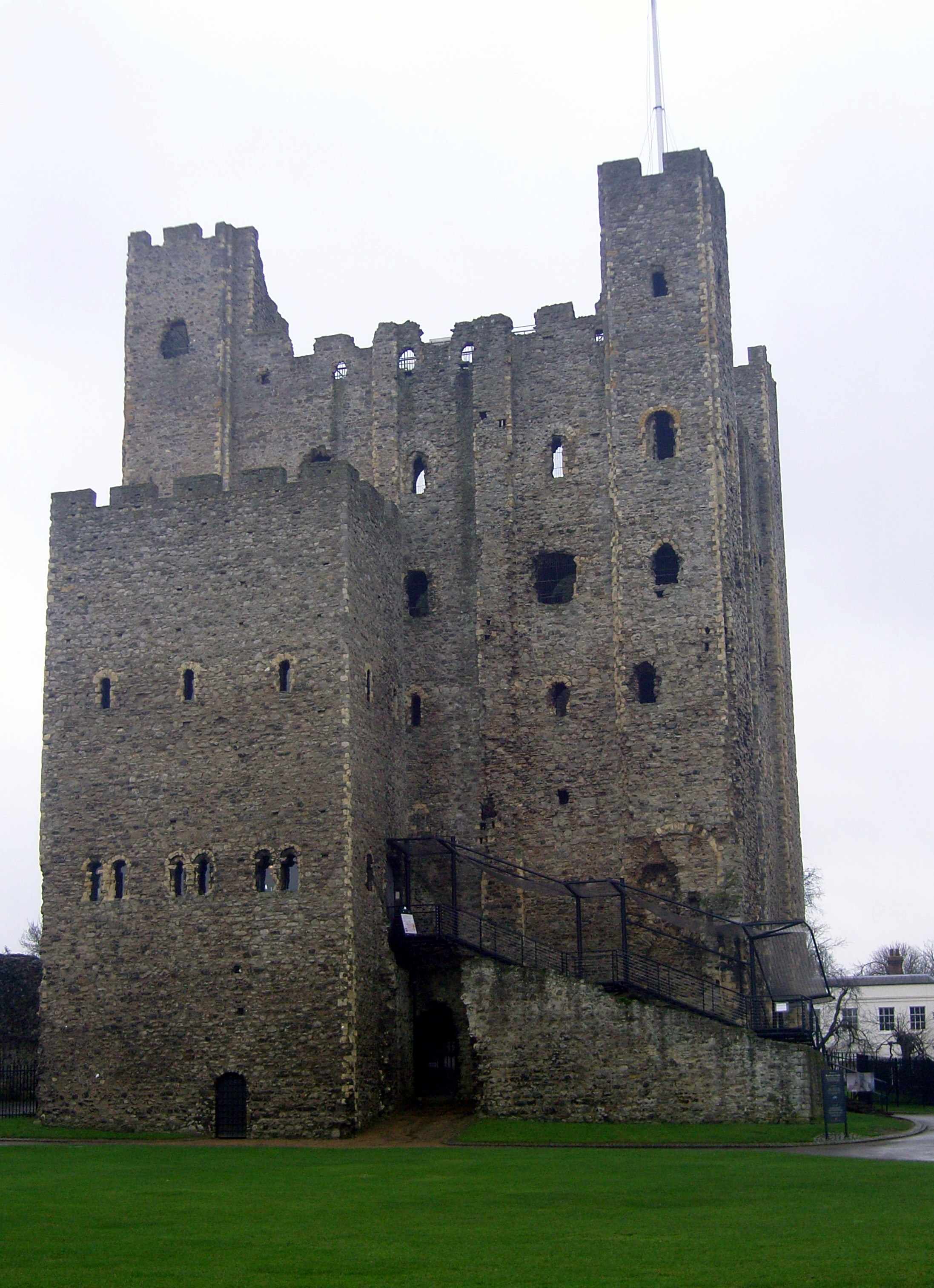 Rochester Castle, Kent